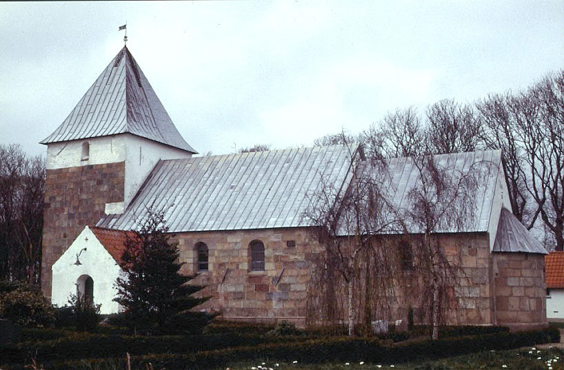 Blidstrup Kirke